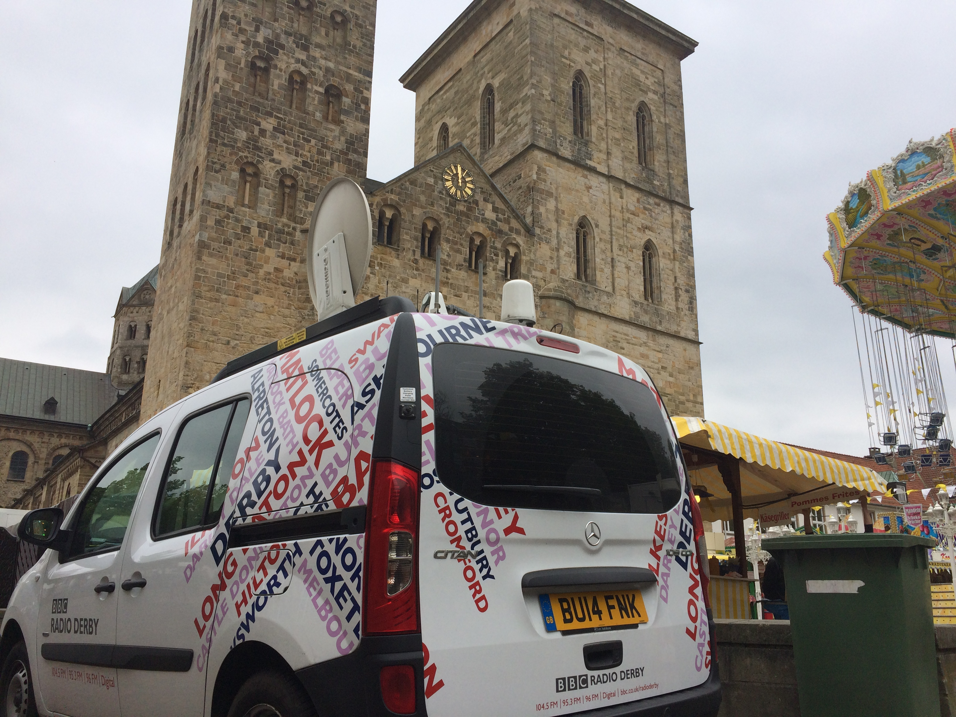 A vehicle used by BBC Radio Derby pictured in Osnabruck - Derby's twin city.